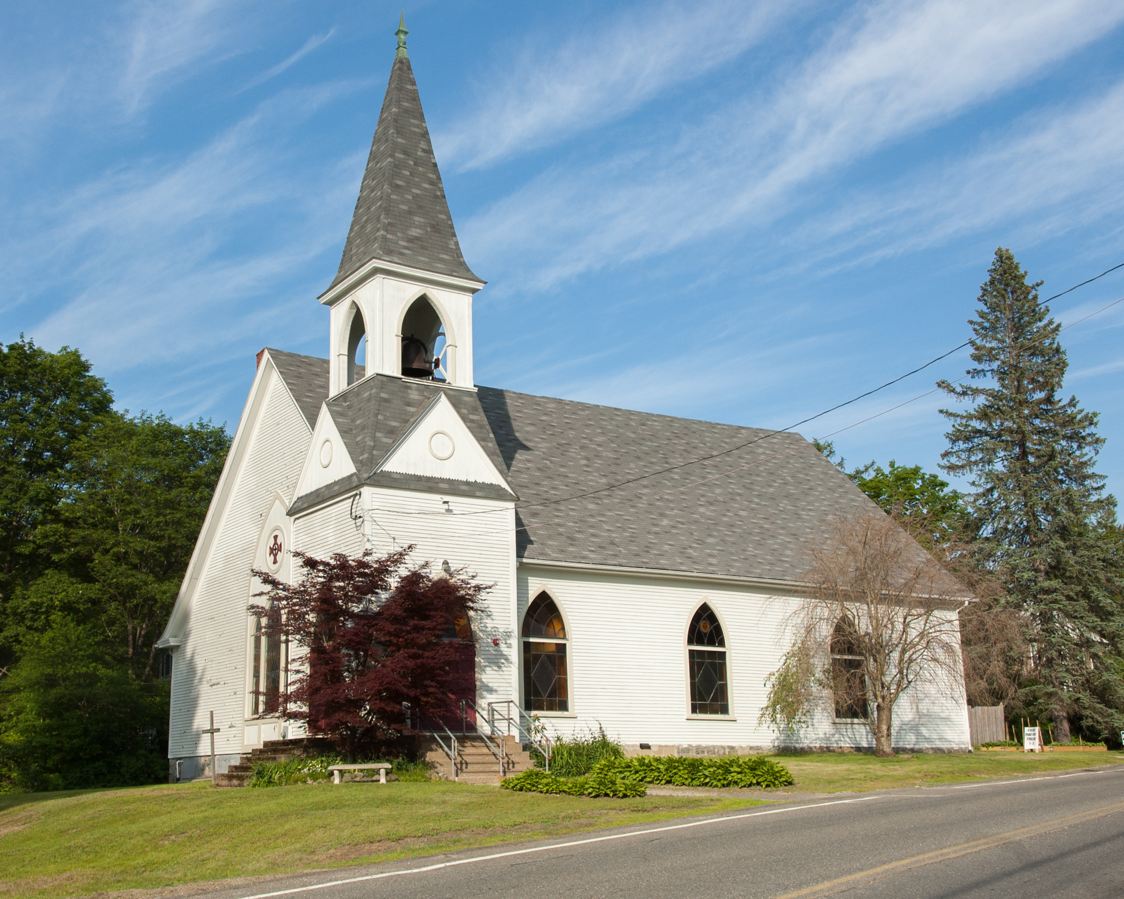 Community United Methodist Church in Byfield, Massachusetts